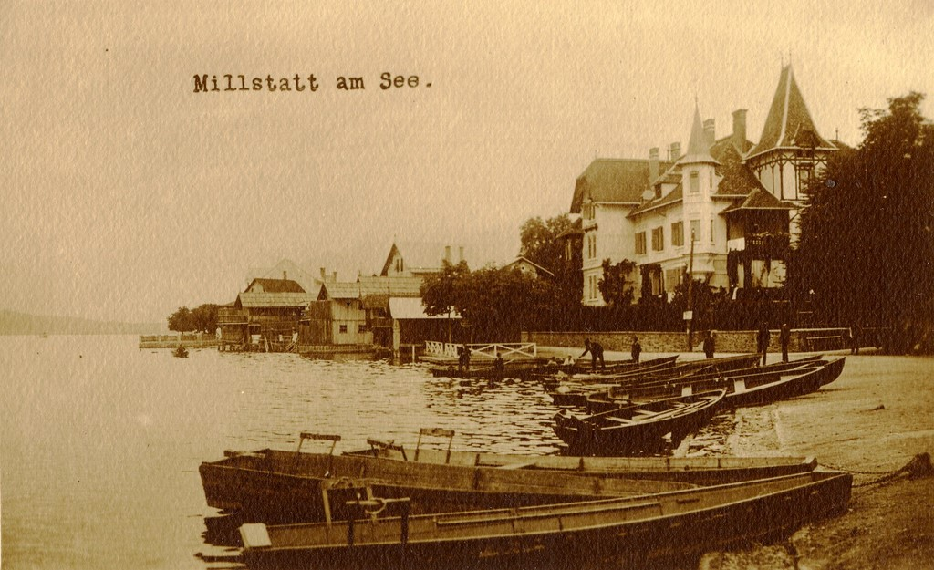 Villa Streintz Millstatt district Spittal an der Drau in Carinthia / Austria / EU. Brief description: Tourism, water, rowing boats.